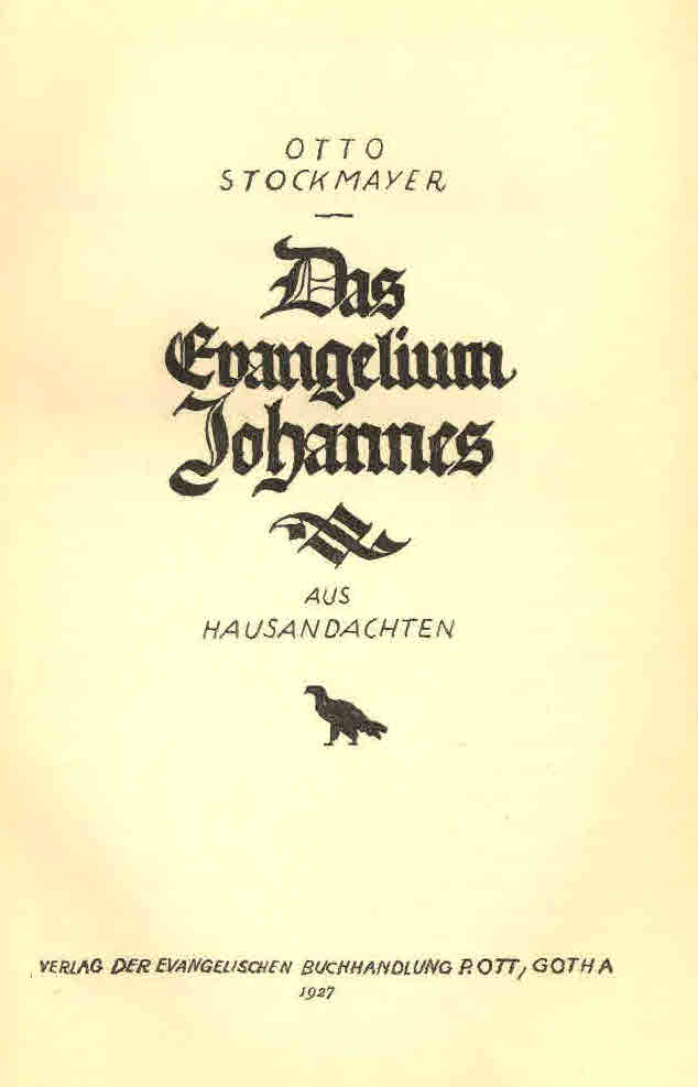 Cover page of Stockmayer's explanation of the Gospel of John, 1927